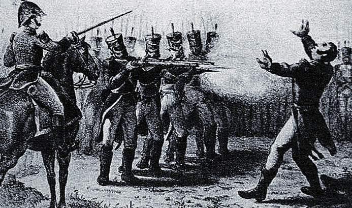 Muerte de Iturbide